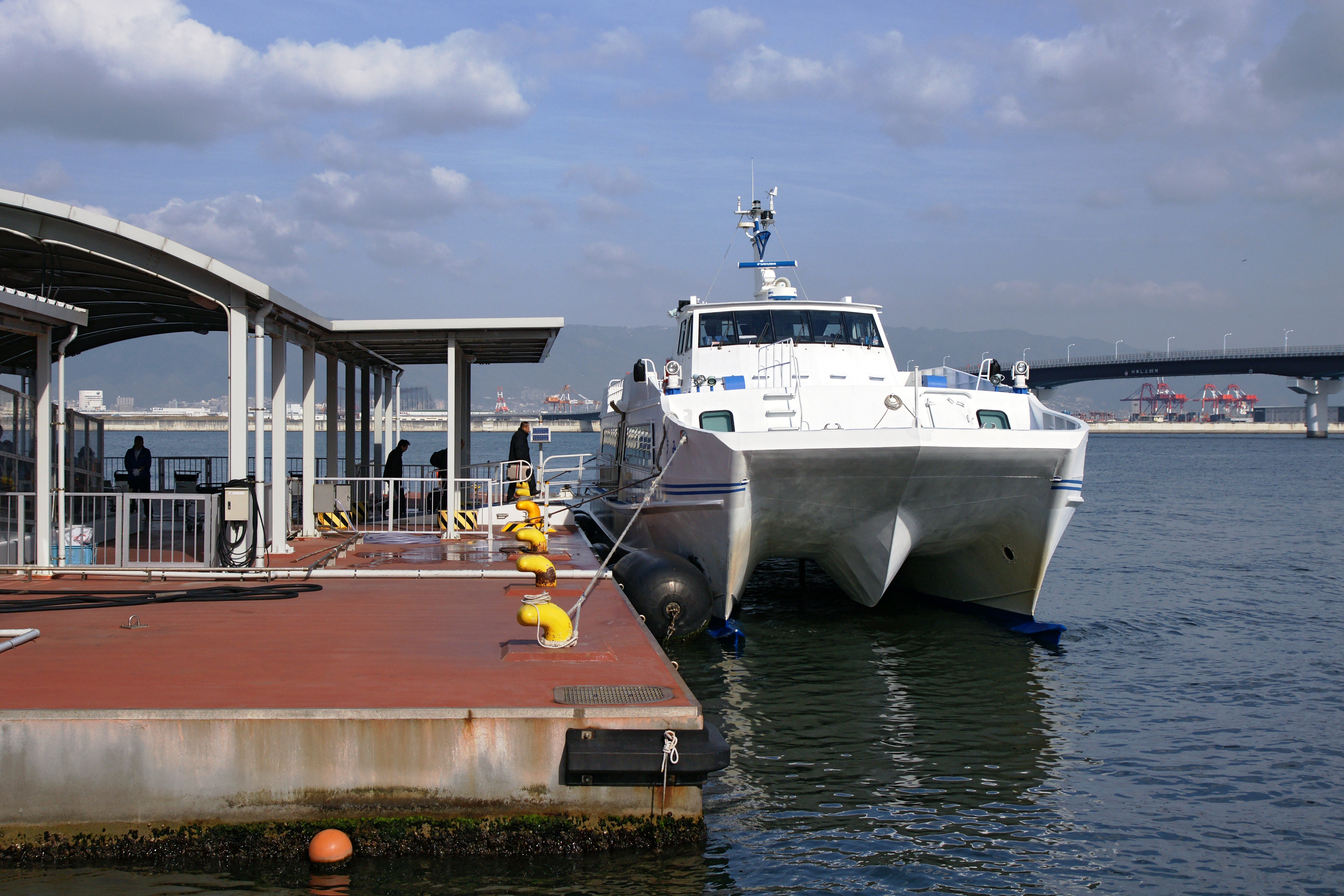 Kobe Airport Sea Access Terminal of Kobe Airport in Kobe, Hyogo prefecture, Japan